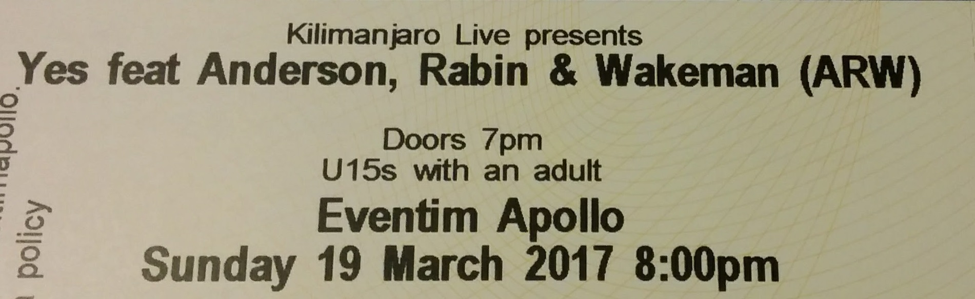 Ticket for a show by Anderson, Rabin and Wakeman on 19 March 2017 in London